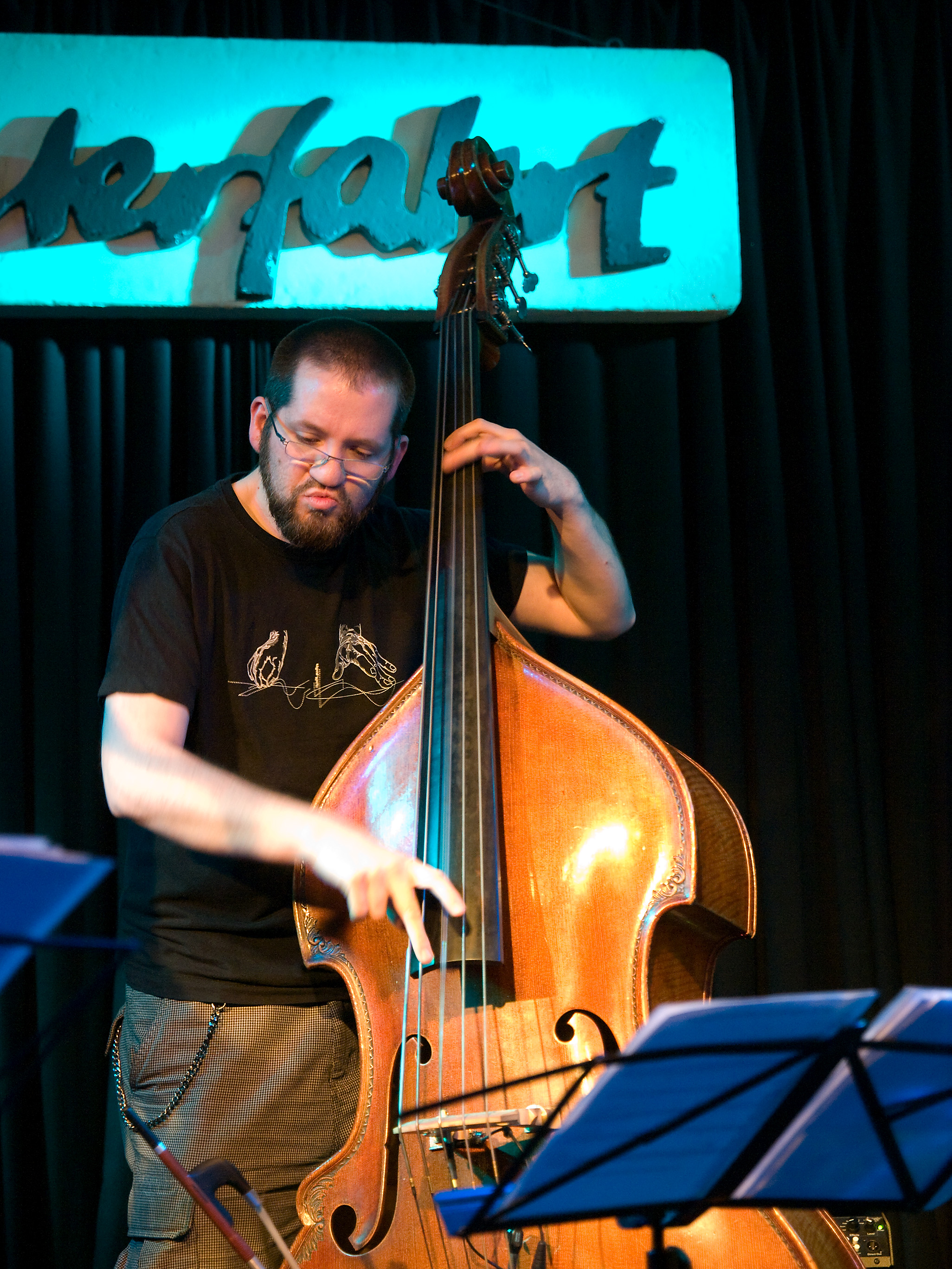 Robert Landfermann, Jazz bassist; Picture taken in Jazz Club Unterfahrt, Munich/Bavaria